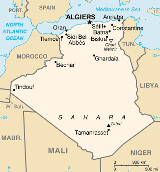 Algeria map from CIA World Factbook, converted from original GIF format